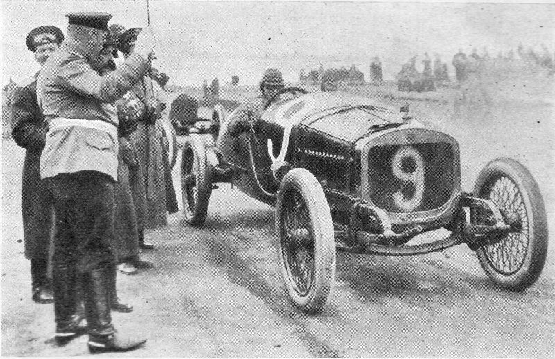 Г. Иванов на старте Гран-при России 1913 года Ivanov at the start of the Grand Prix of Russia in 1913 driving Russo-Baltique C24/58 4 cyl.